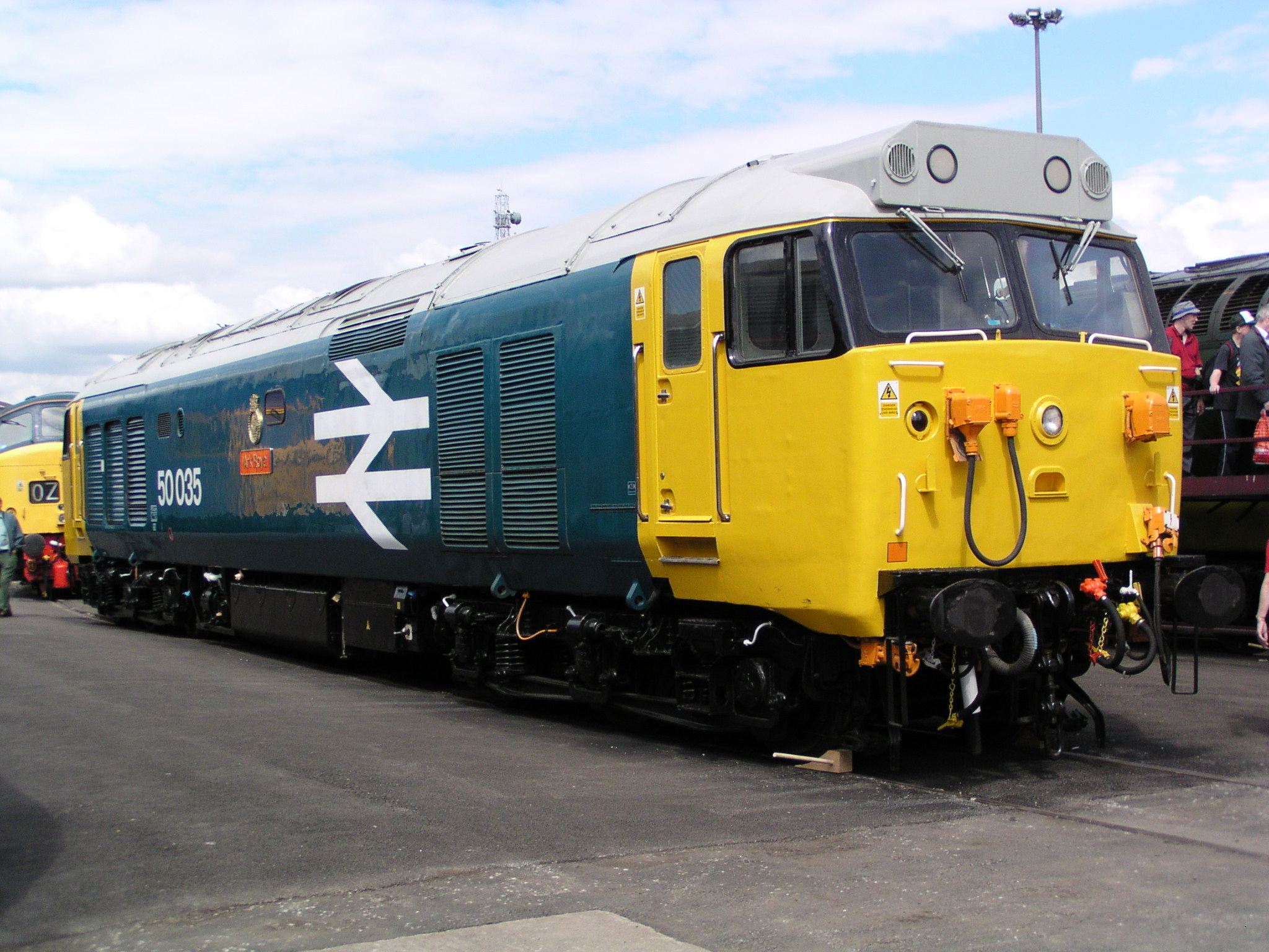 BR Class 50, no. 50035 "Ark Royal" at Doncaster Works on 27th July 2003. This locomotive carries BR Blue Large Logo livery, and is preserved on the Severn Valley Railway.